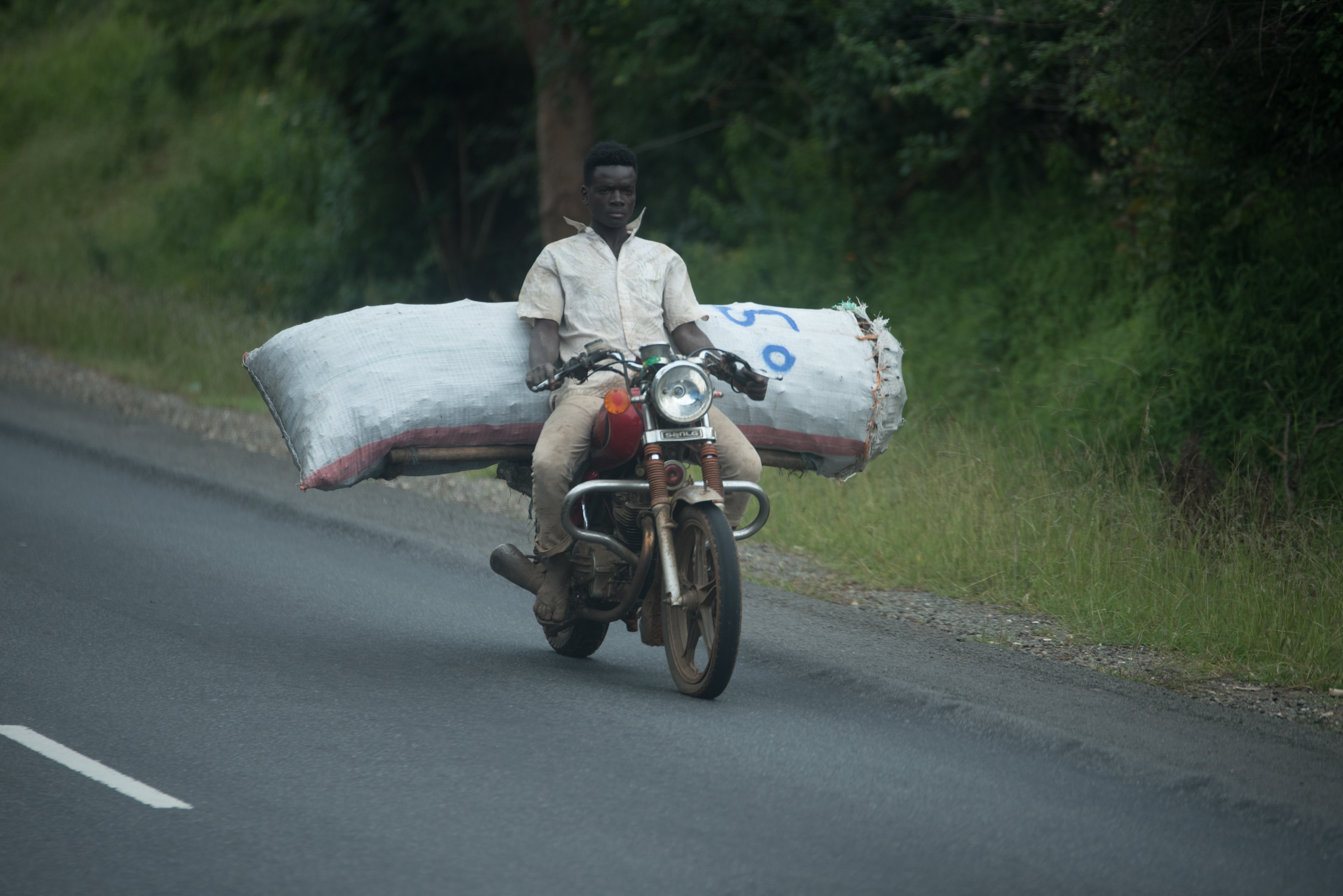 A bodaboda driver carrying a sack of charcoal to its destination This is an image of "African people at work" from Tanzania